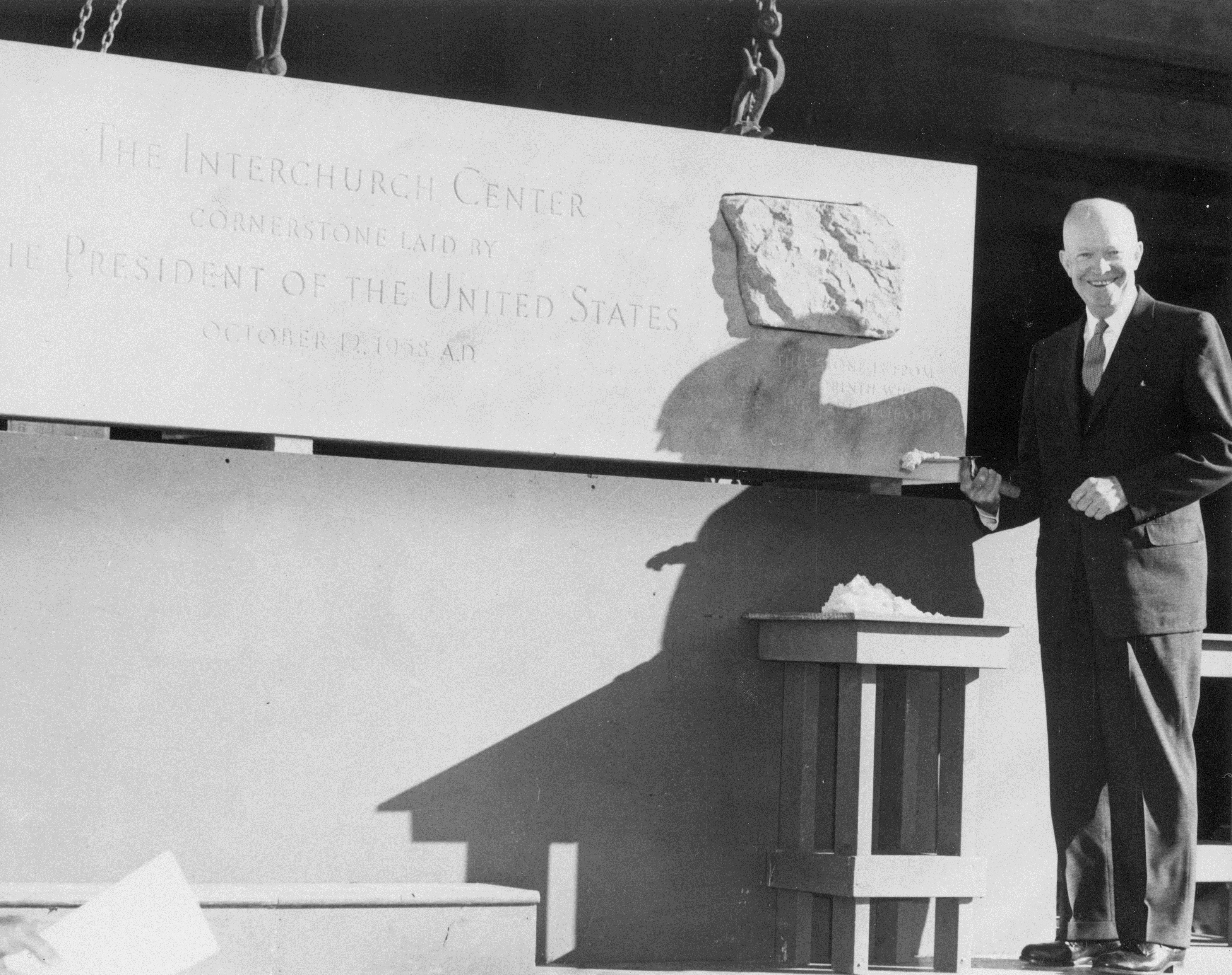 President Dwight D. Eisenhower mortaring The Interchurch Center's cornerstone